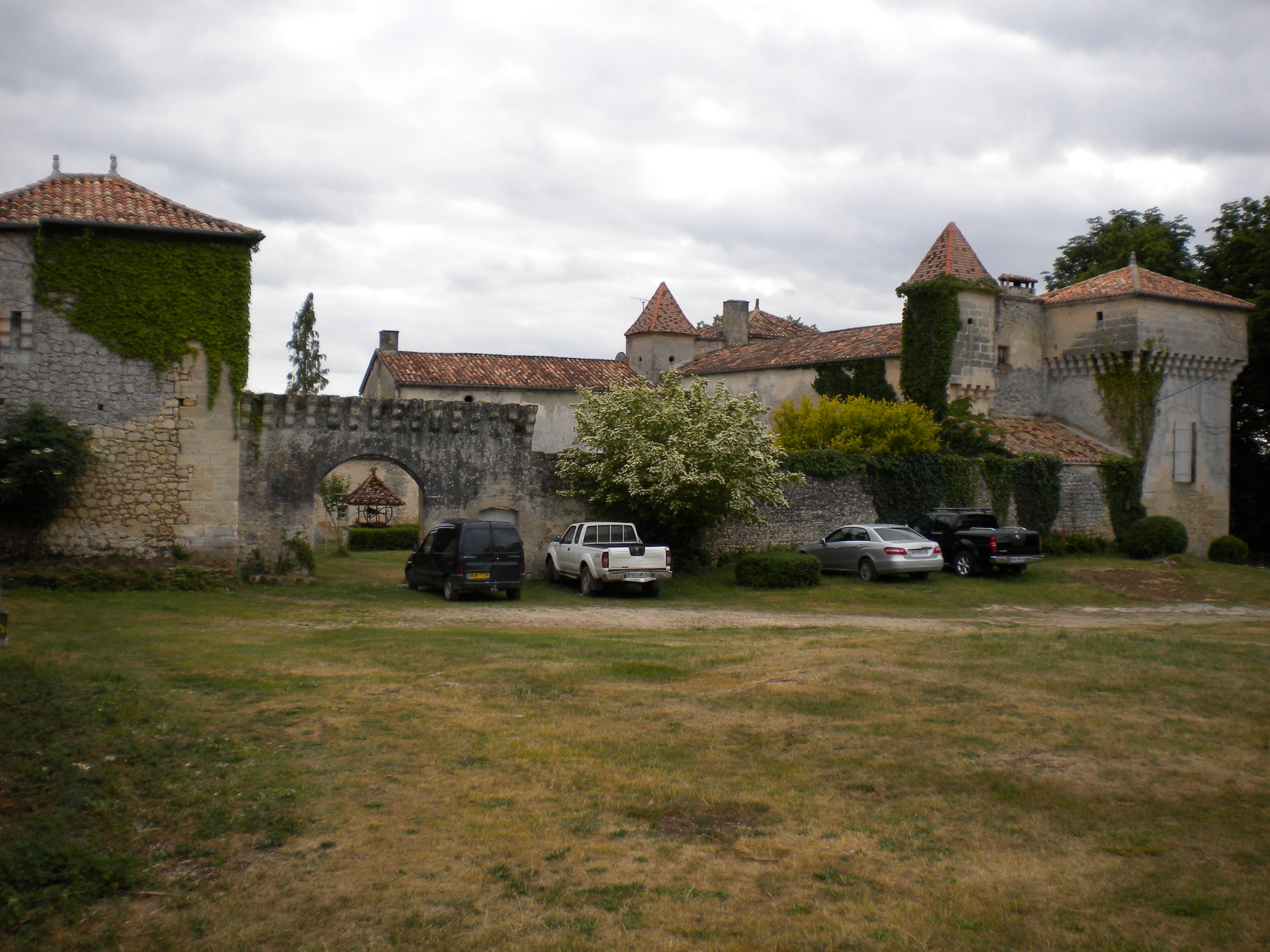 The fifteenth century castle of Chavaroche (or Chaveroche) in the commune of Vieux-Mareuil, Dordogne, France.